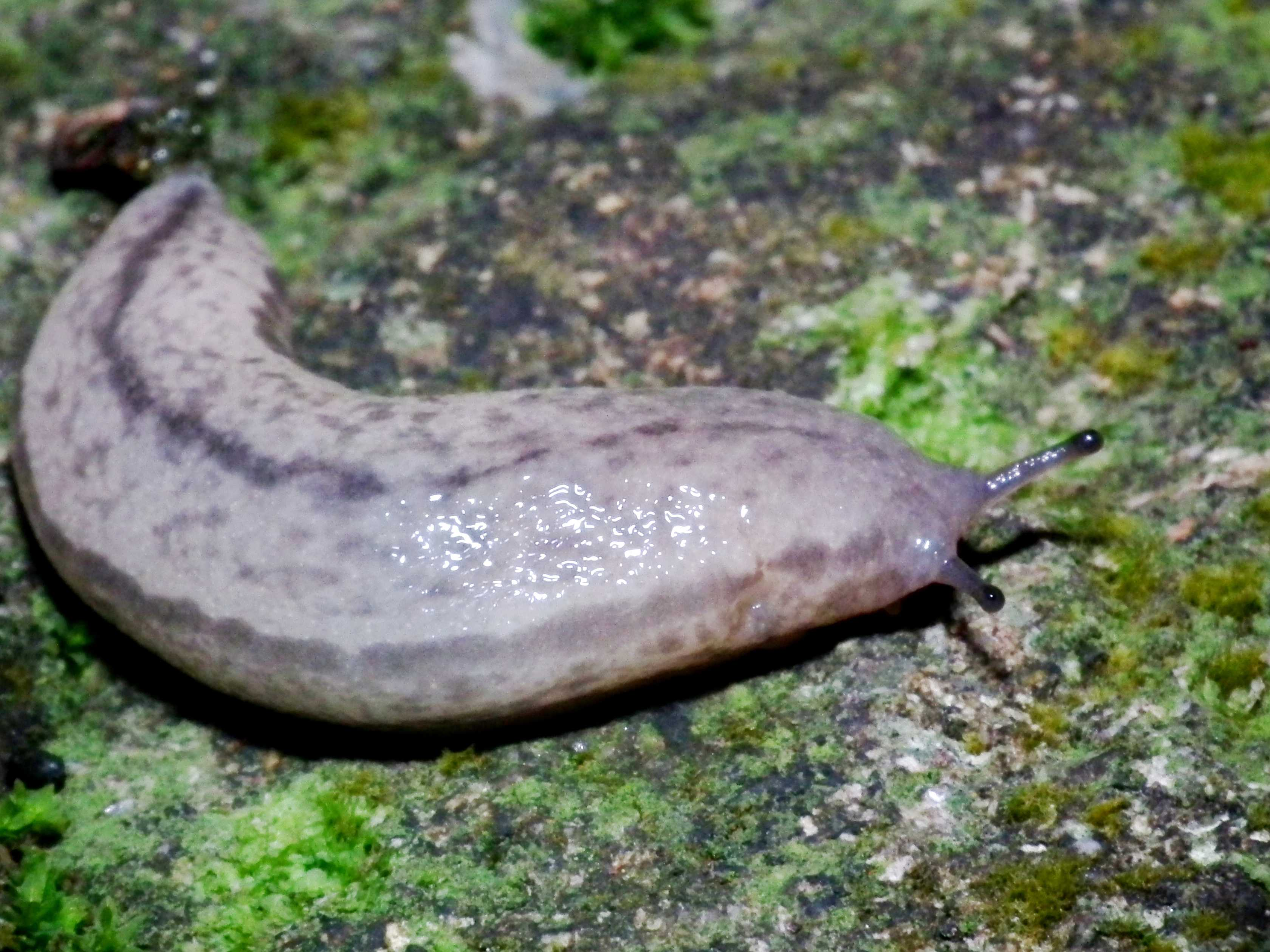 an unidentified gastropod (probably Philomycidae) from Hong Kong. Locality: Tai Po Kau, Hong Kong.